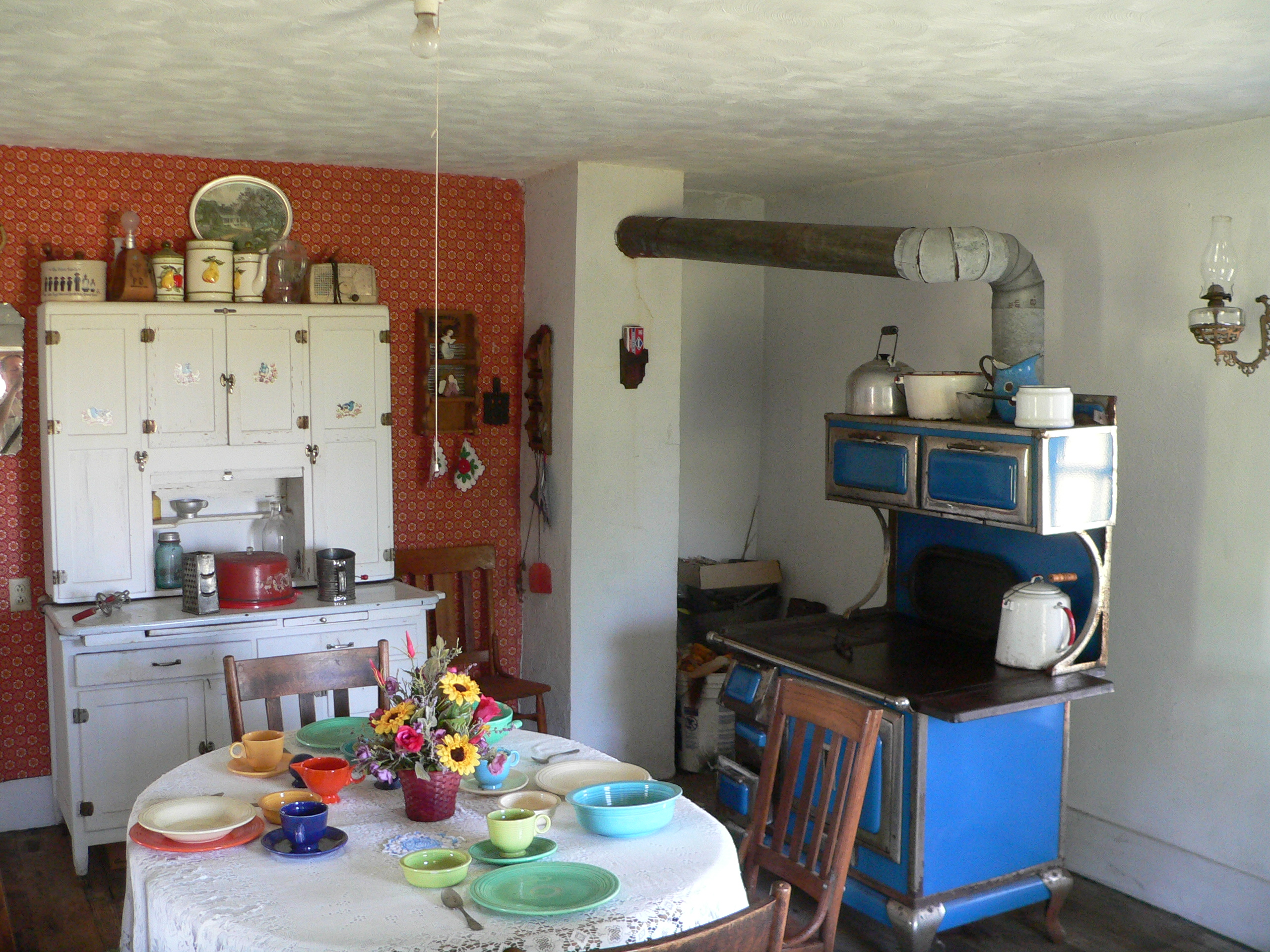 Interior of William R. Dowse House, located southwest of Comstock in Custer County, Nebraska. The sod house was built in 1900, and is listed in the National Register of Historic Places. It is now open as a museum. The photo was taken inside the kitchen, facing northwest.